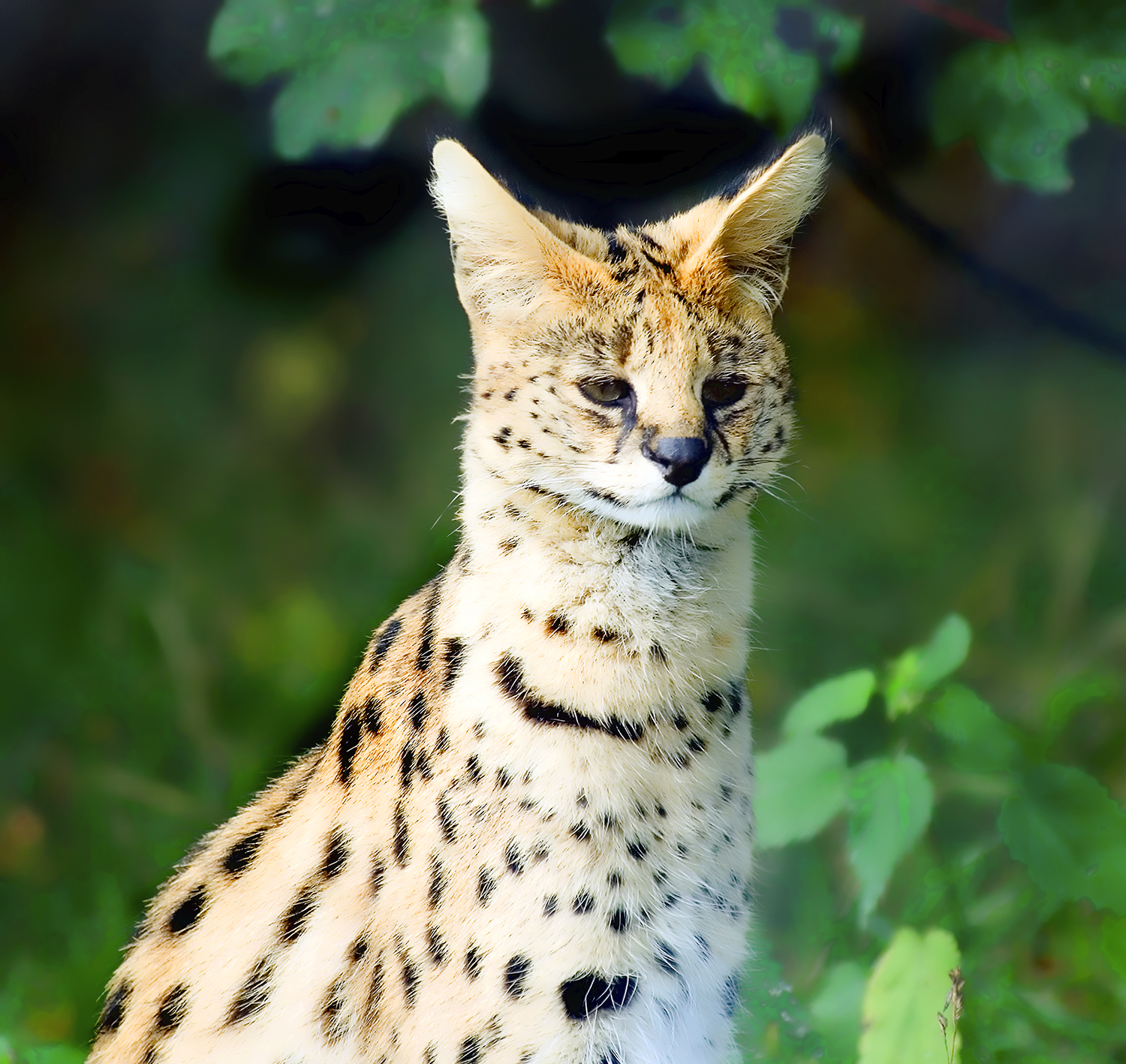 Photographed at Chester Zoo.